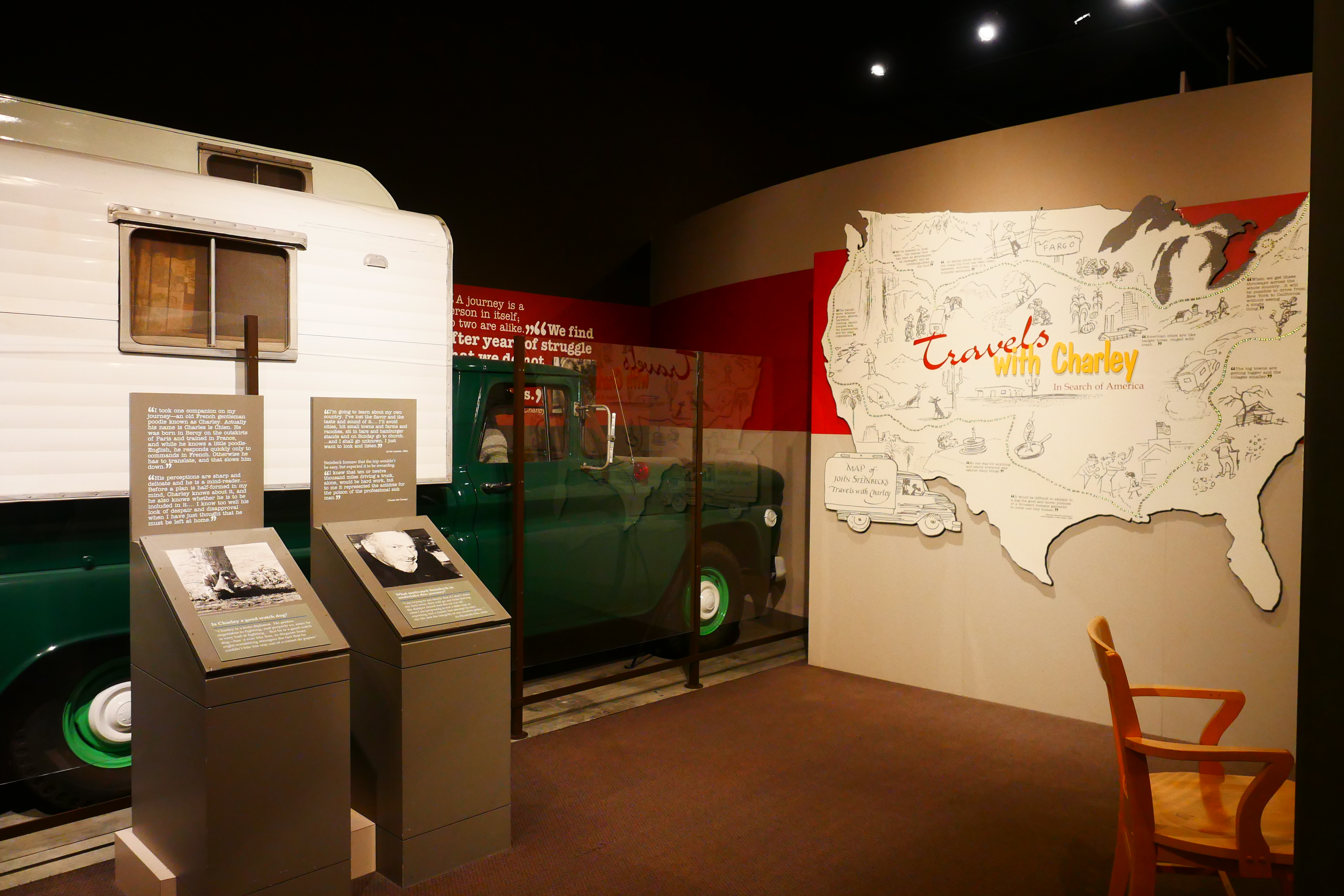 John Steinbeck Museum